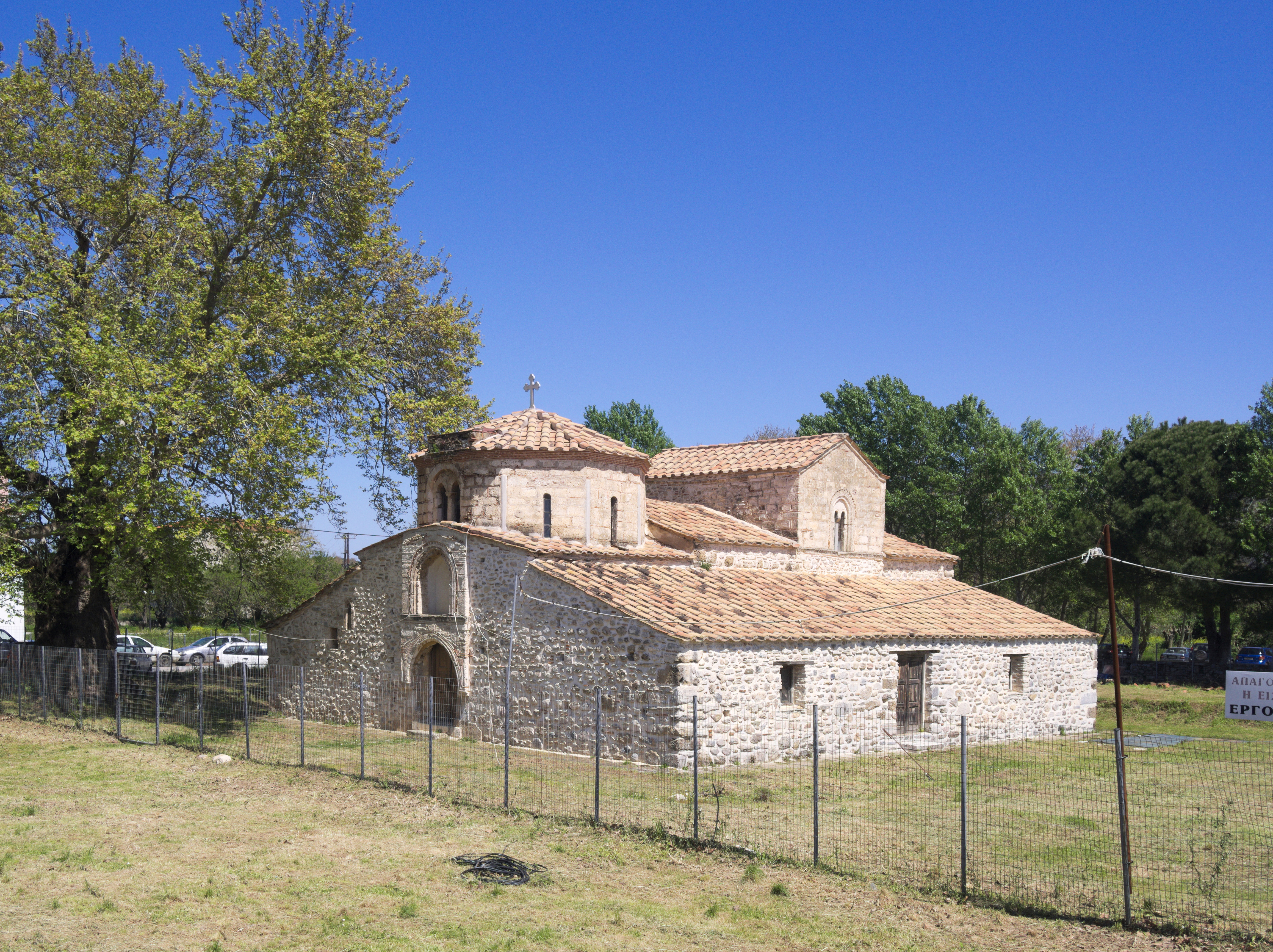 SW view of the 10th century church of saint Demetrius at Hania Avlonariou